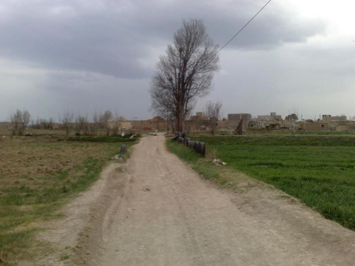 yengejeh